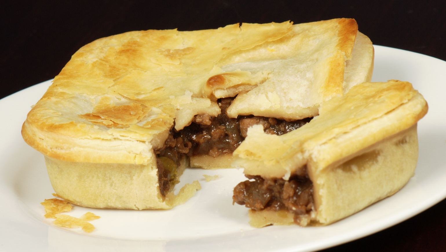 A vegan faux-meat pie, sold at La Panella in Melbourne. The filling contains soy protein, mushrooms, peas and vegan gravy.